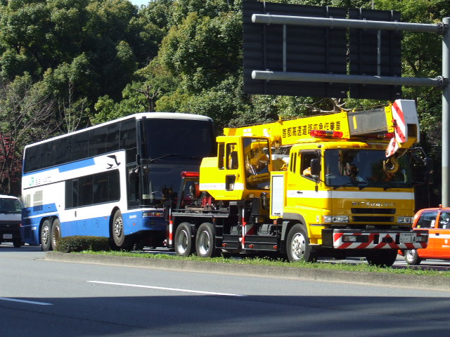 Wrecker Truck&Double-Decker Bus, Japan.